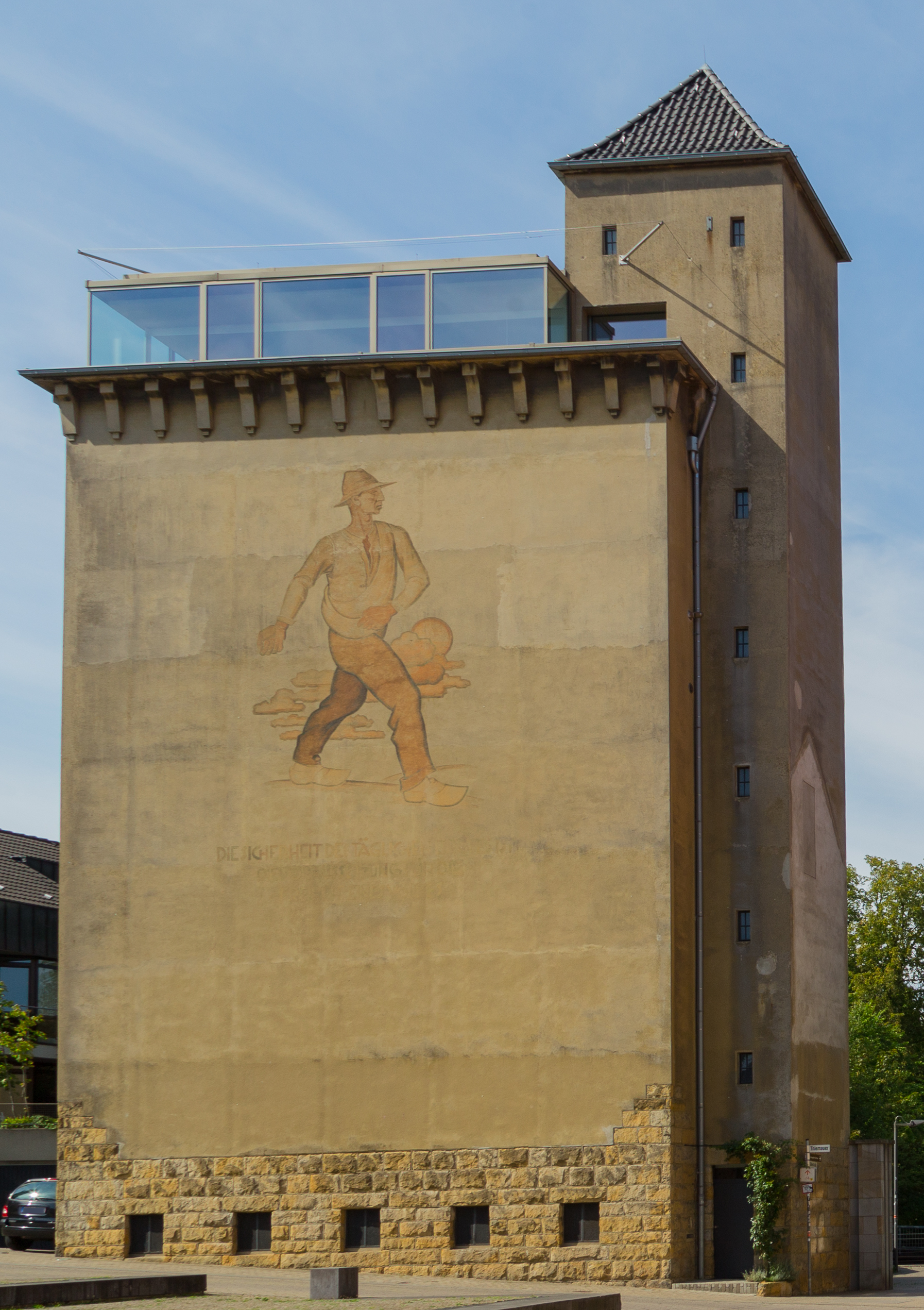 Listed silo beside Ems Mill (Emsmühle) in Rheine, Kreis Steinfurt, North Rhine-Westphalia, Germany. The sower is a painting by Karl Wenzel.